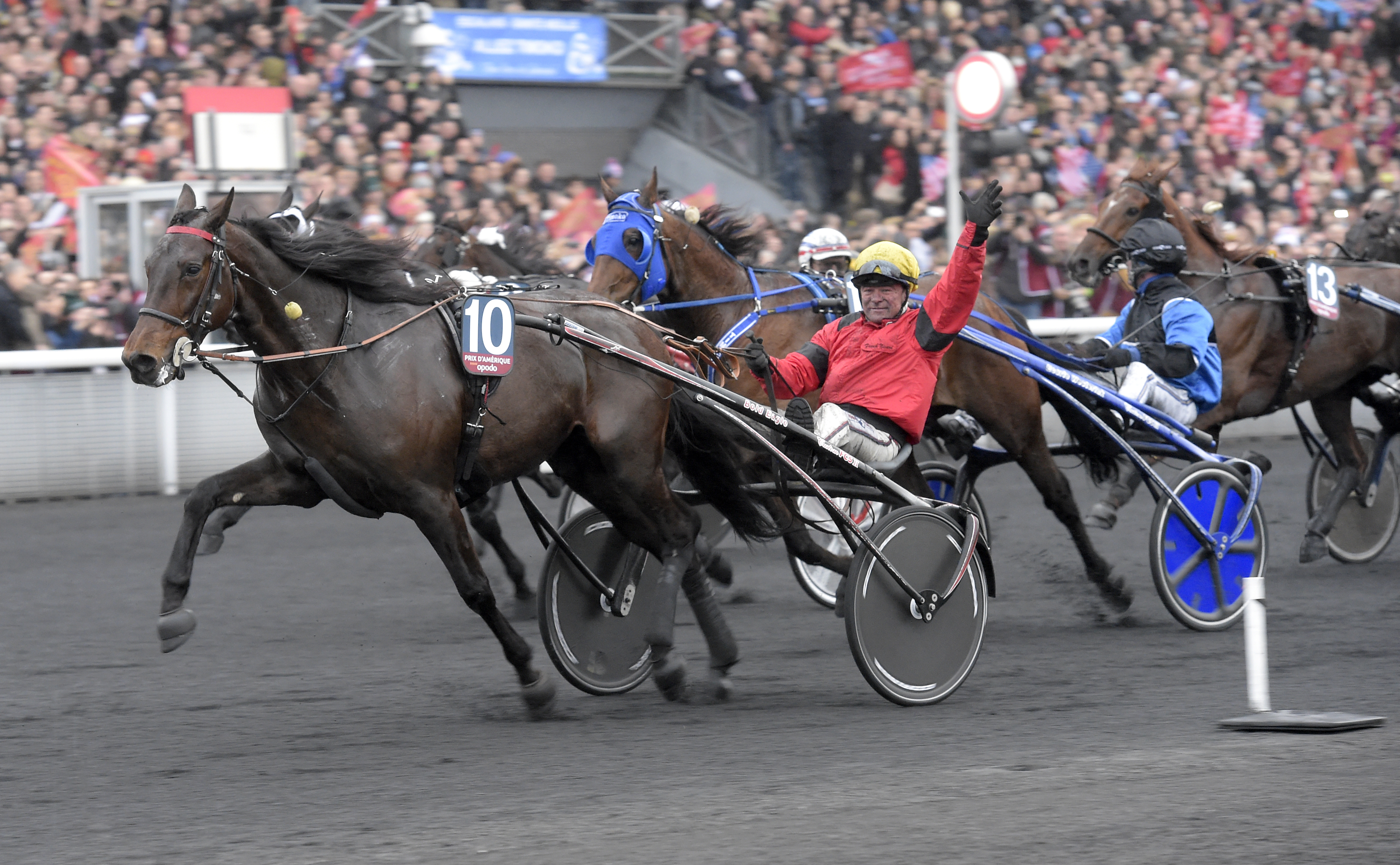 Bold Eagle and driver Franck Nivard wins Prix d'Amerique 2016